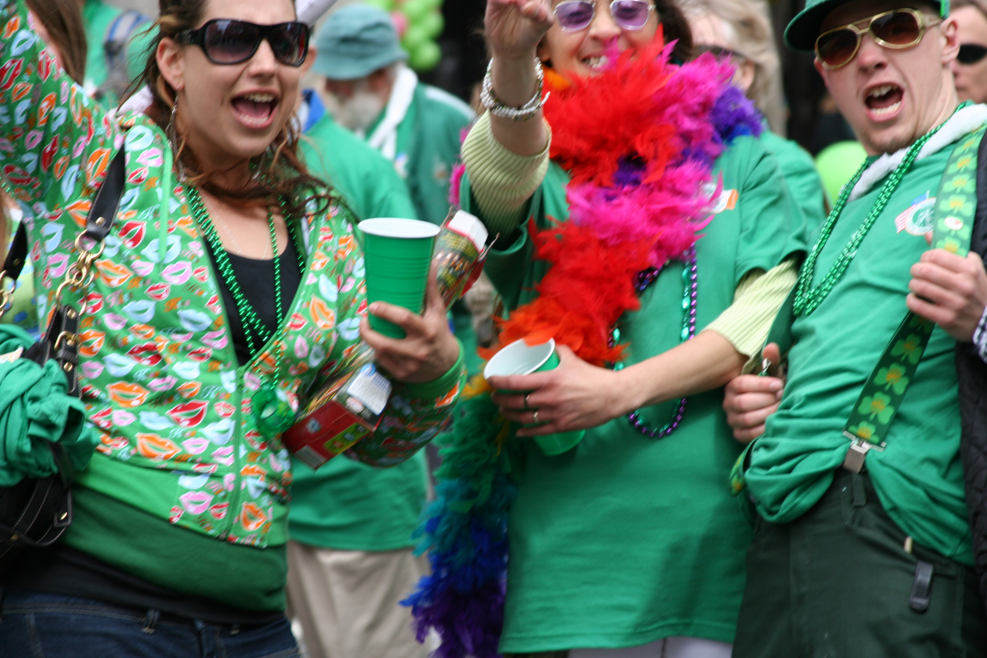 Saint Patrick's Day, San Franciso